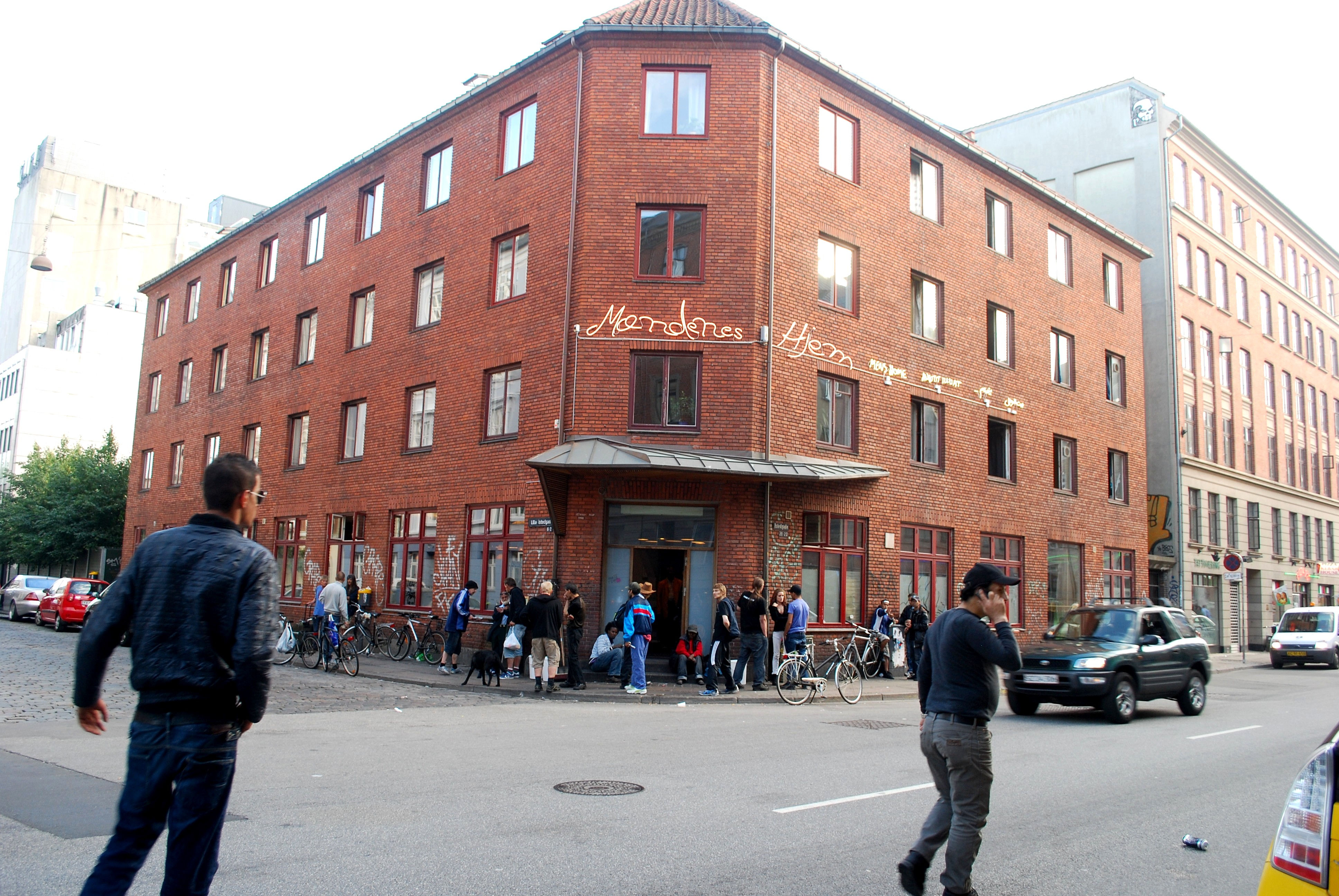 Mændenes Hjem, (The mens home) Vesterbro, Copenhagen